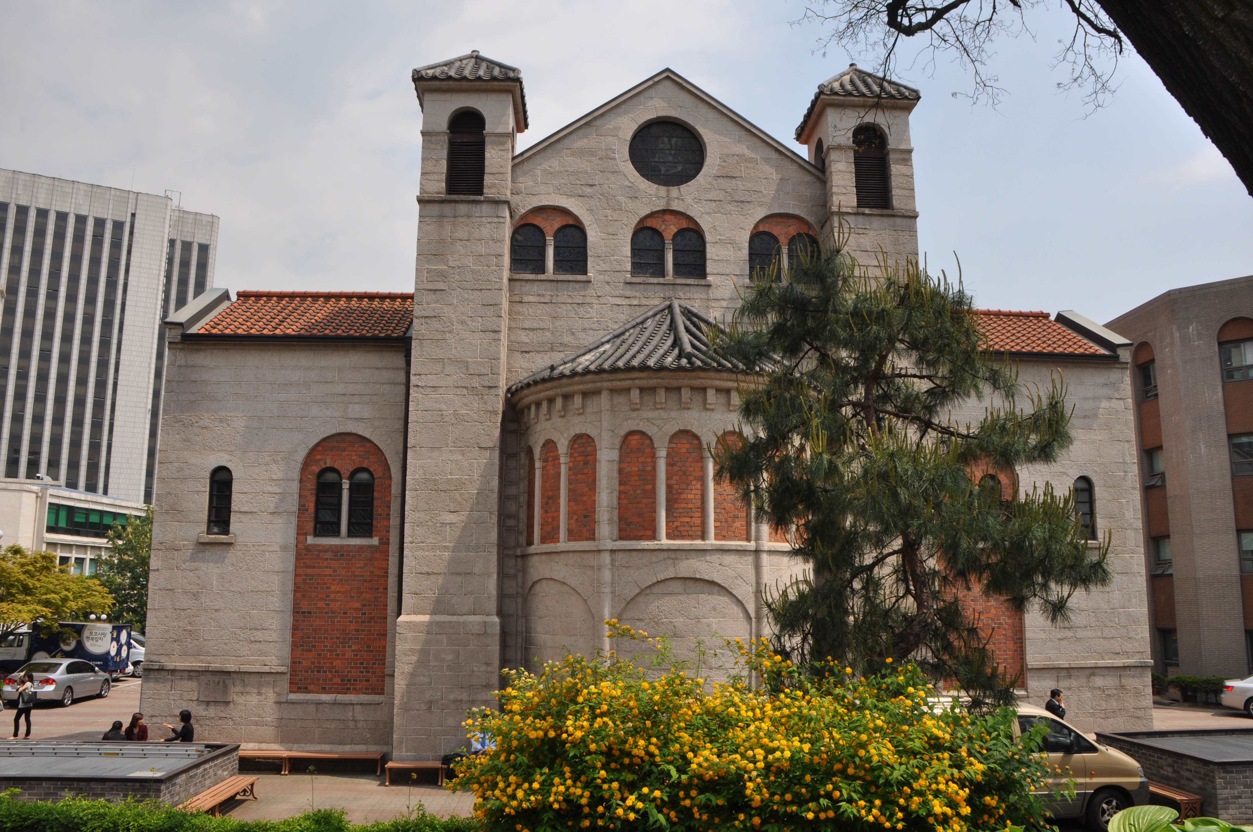 Seoul Anglican Cathedral 1 - Outside